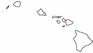 Locator map of Kahului, Maui, Hawaii. Credits